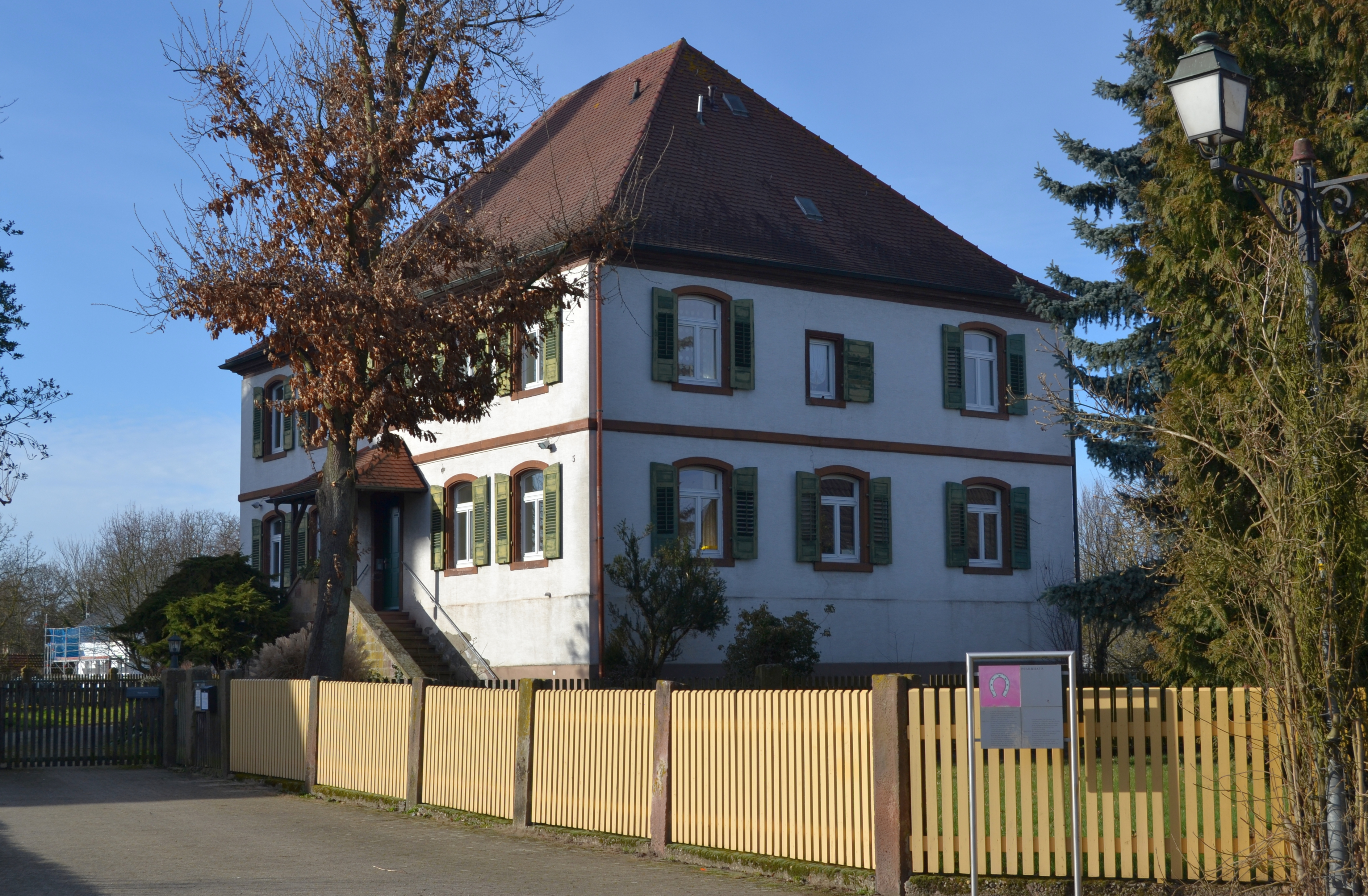 European Parliament 2014 3.–7. February 2014, StrasbourgThis photo has been created within the project "WIKI loves parliaments / European Parliament". Usage and Help If you have any questions concerning this picture or how to use it, feel free to Personality rights warningAlthough this work is freely licensed or in the public domain, the person(s) shown may have rights that legally restrict certain re-uses unless those depicted consent to such uses. In these cases, a model release or other evidence of consent could protect you from infringement claims.